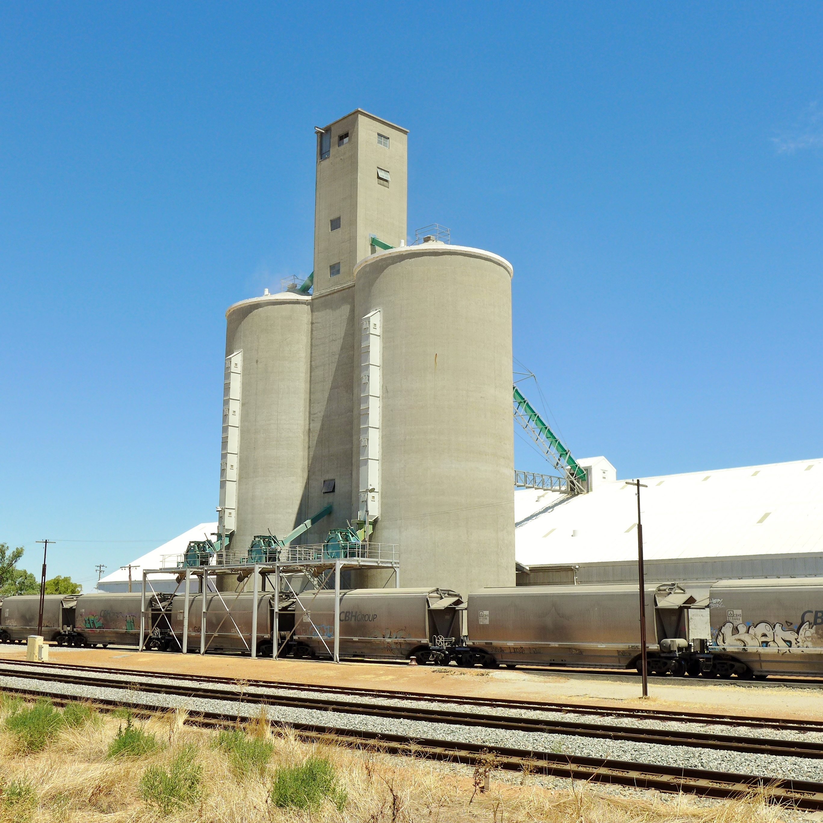 View of the CBH grain receival point at Cunderdin, Western Australia.